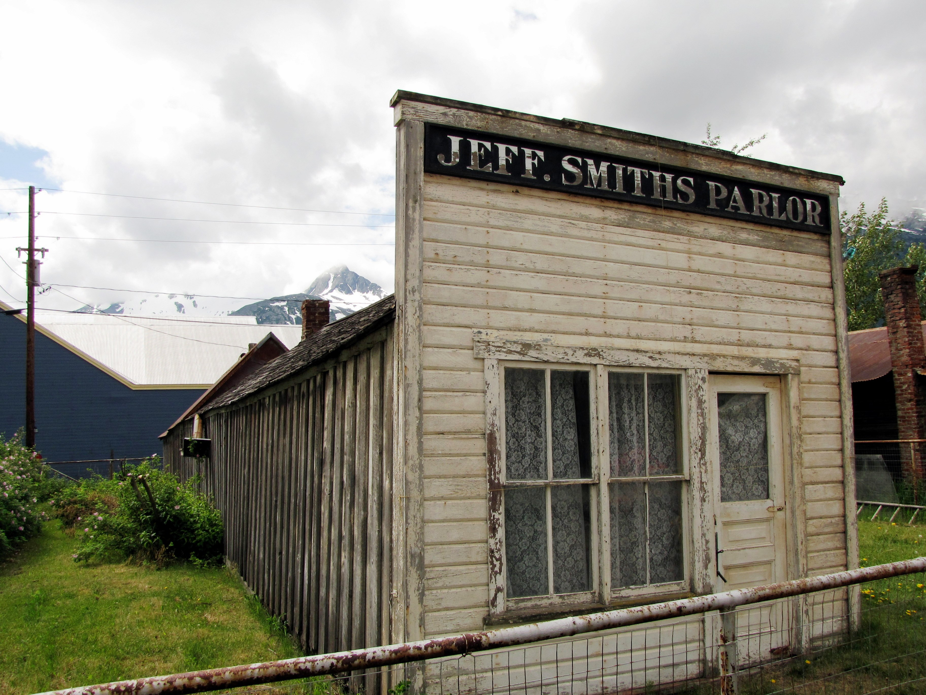 Soapy Smith's parlor in Skagway, Alaska.